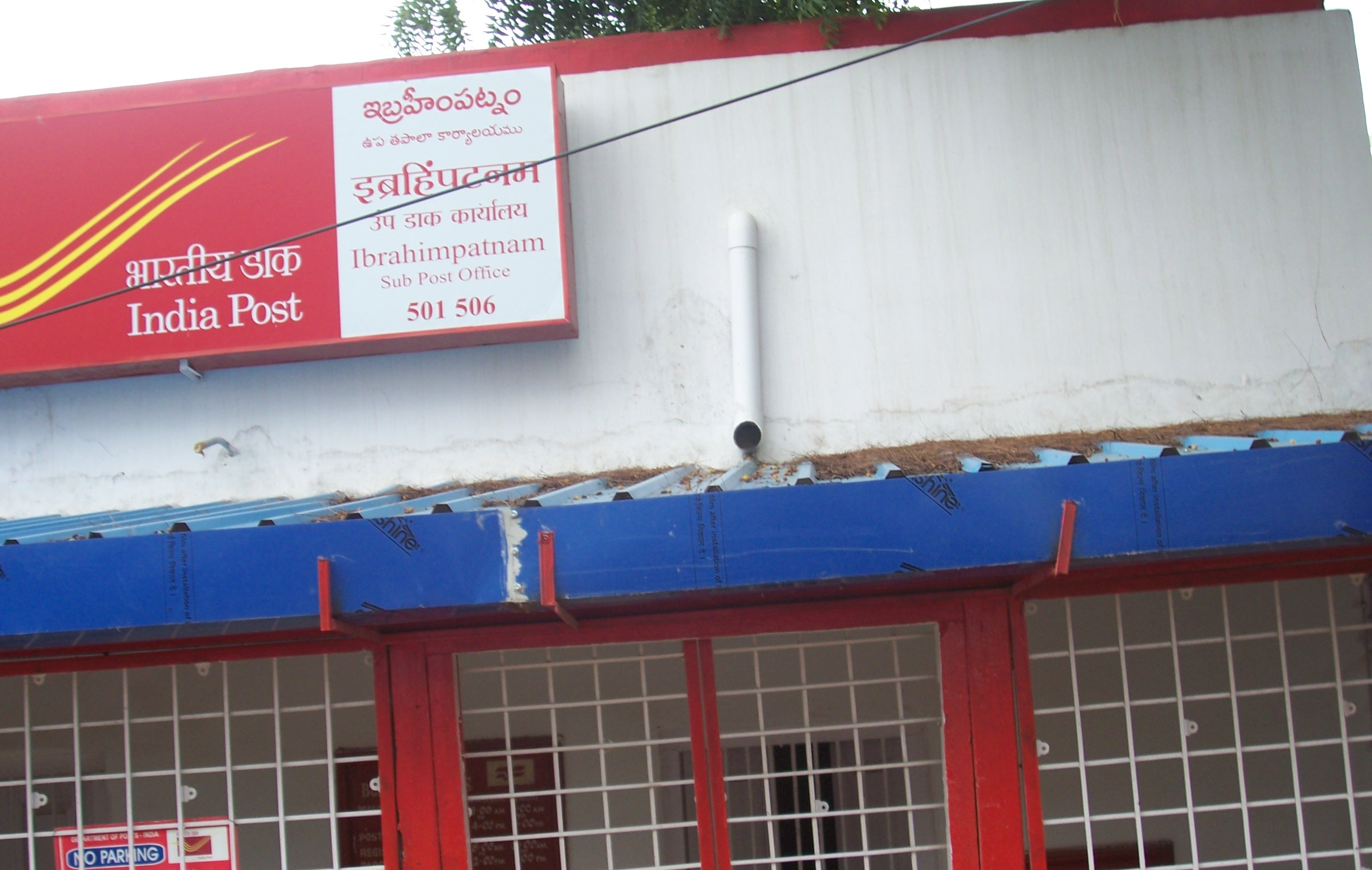 Post office